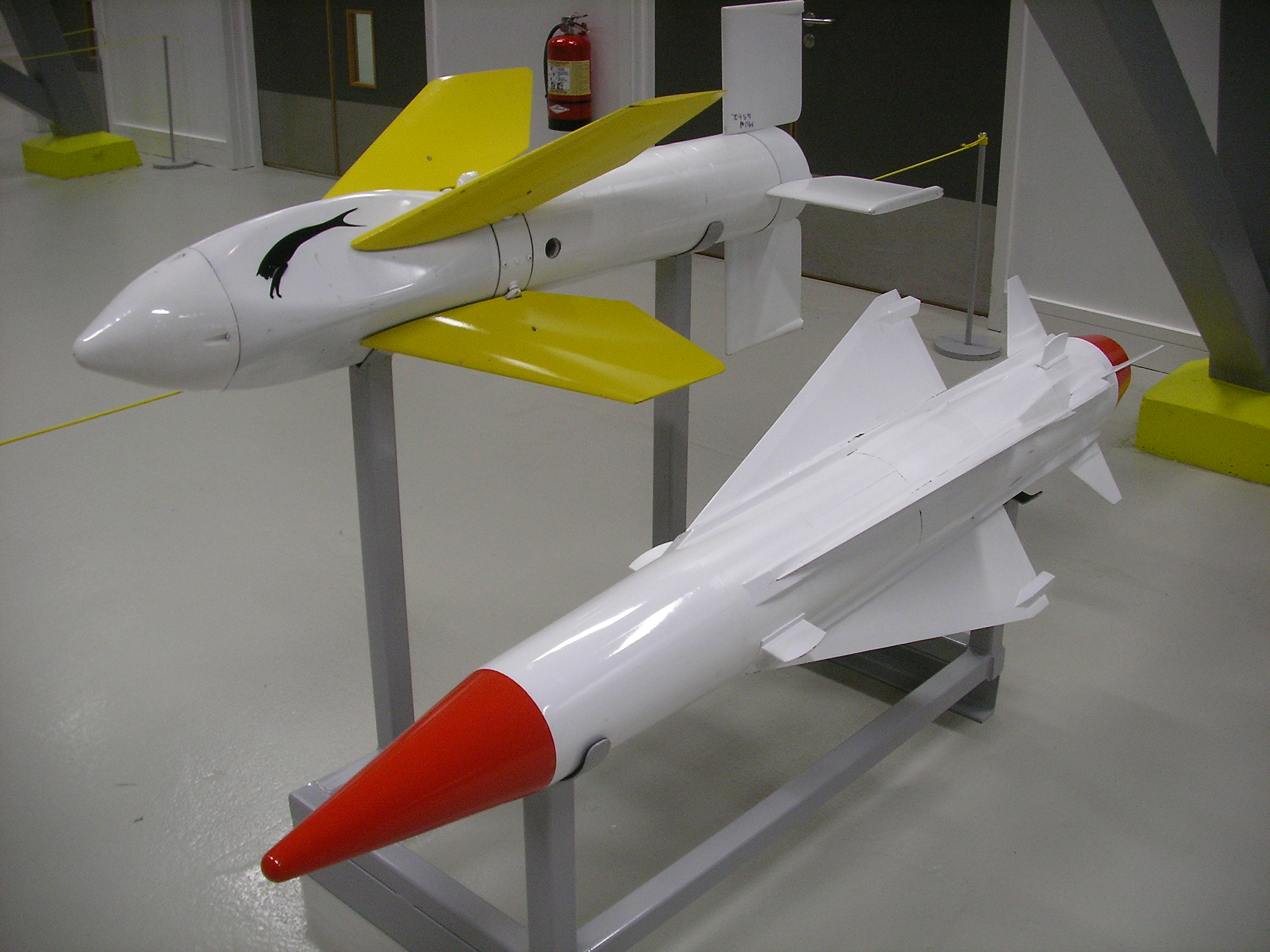 Full size Seacat and Seawolf missiles side by side at the IWM Duxford